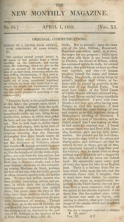 The New Monthly Magazine publication of The Vampyre by John William Polidori, April 1 1819, Vol. XI, No. 63, London.